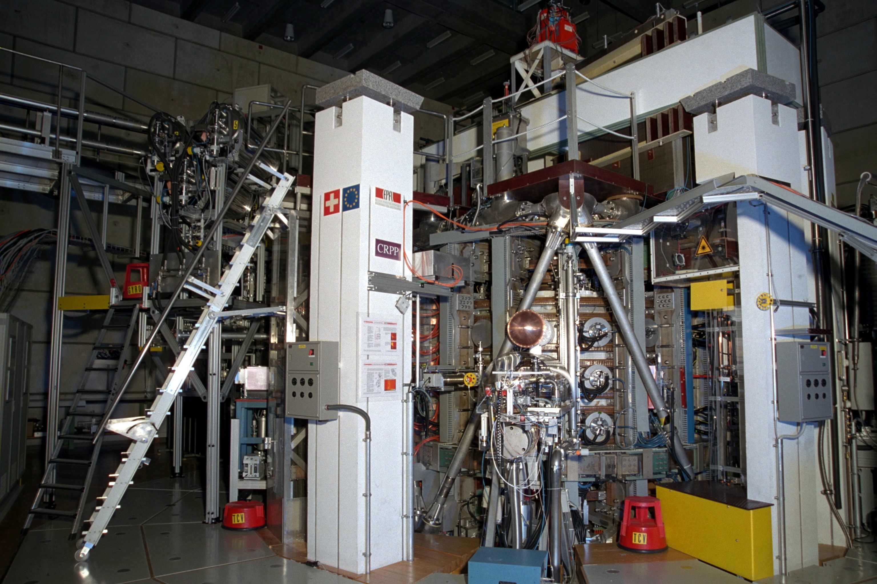 Tokamak à Configuration Variable (TCV): general view of the set-up. Courtesy of CRPP-EPFL, Association Suisse-Euratom